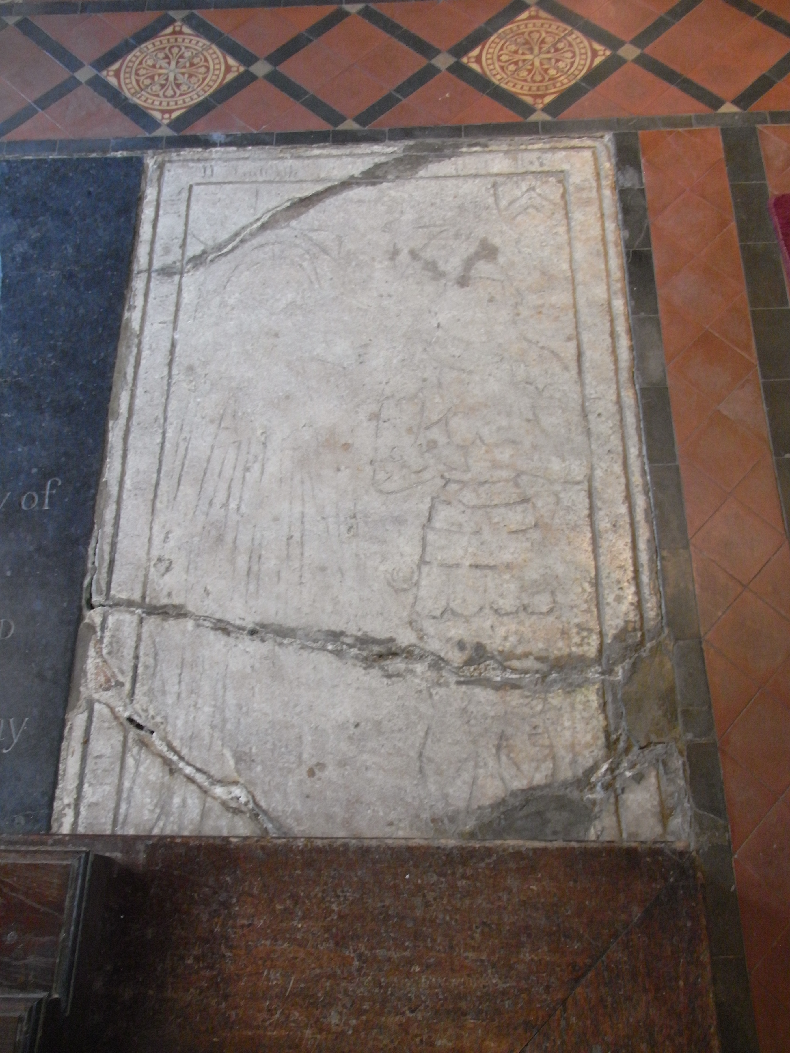 The sculpted alabaster slab over the tomb of Joan Dauntsey (circa 2018 1395–1457) and her third husband John Dewale, before the high altar of the church of Saint James the Great, Dauntsey, Wiltshire, England, UK. Joan Dauntsey was the second wife of Sir Maurice Russell (2 February 1356 – 27 June 1416), a High Sheriff of Gloucestershire.